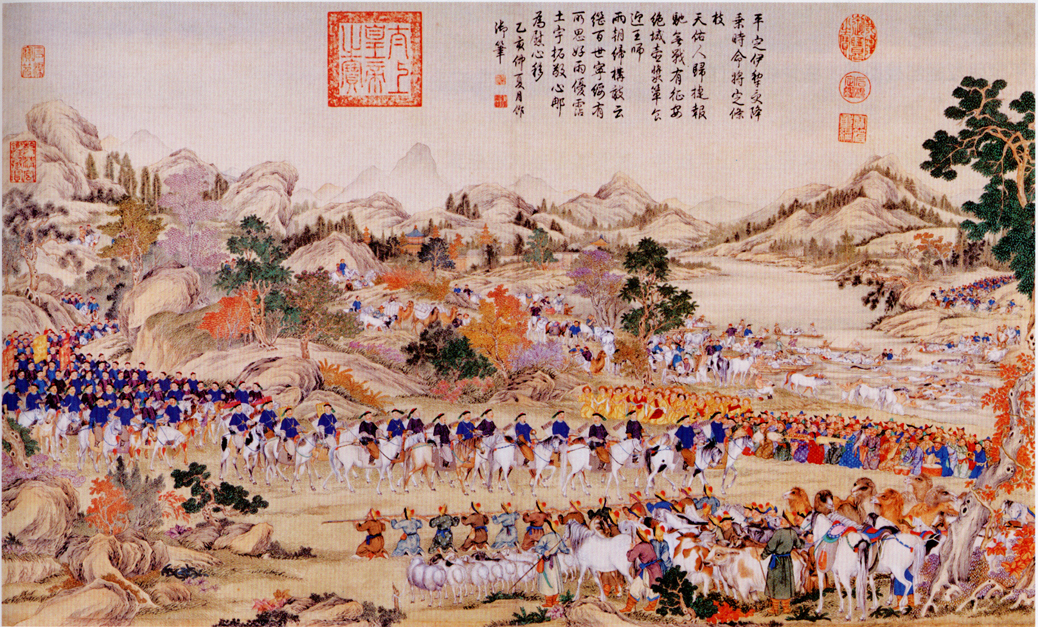 "Receiving the surrender of the Ili". Marching during the spring, the Chinese army reaches Kouldja on the Ili river without opposition, 1755.